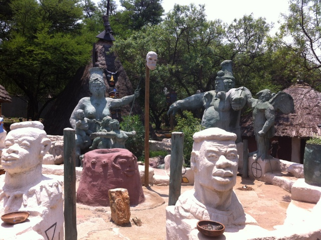 Initiation area of Credo Mutwa Cultural Village Kwa-Khaya Lendaba